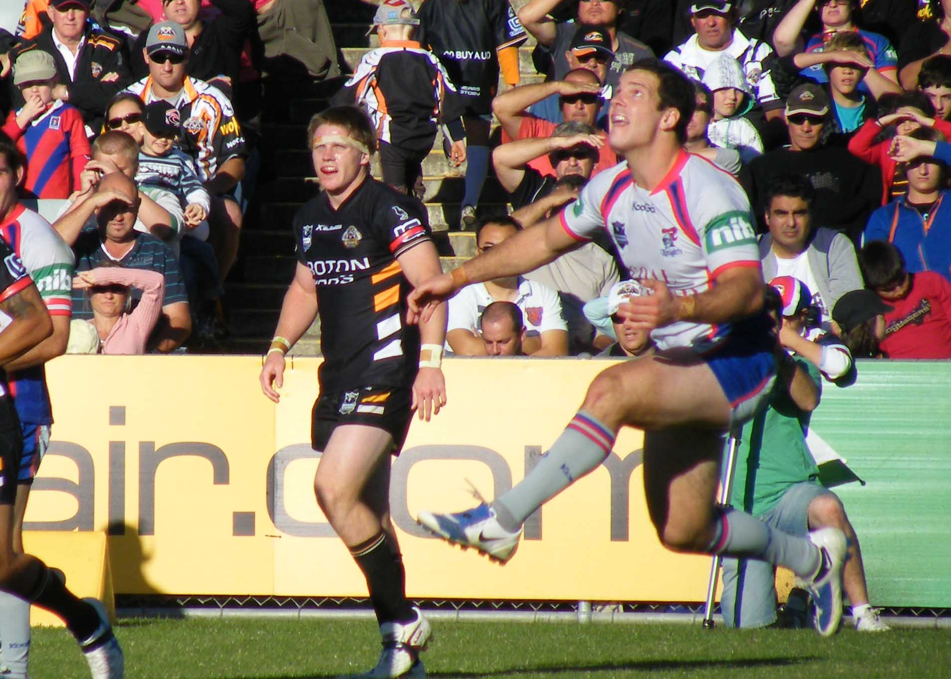 Jarrod Mullen of the Newcastle Knights